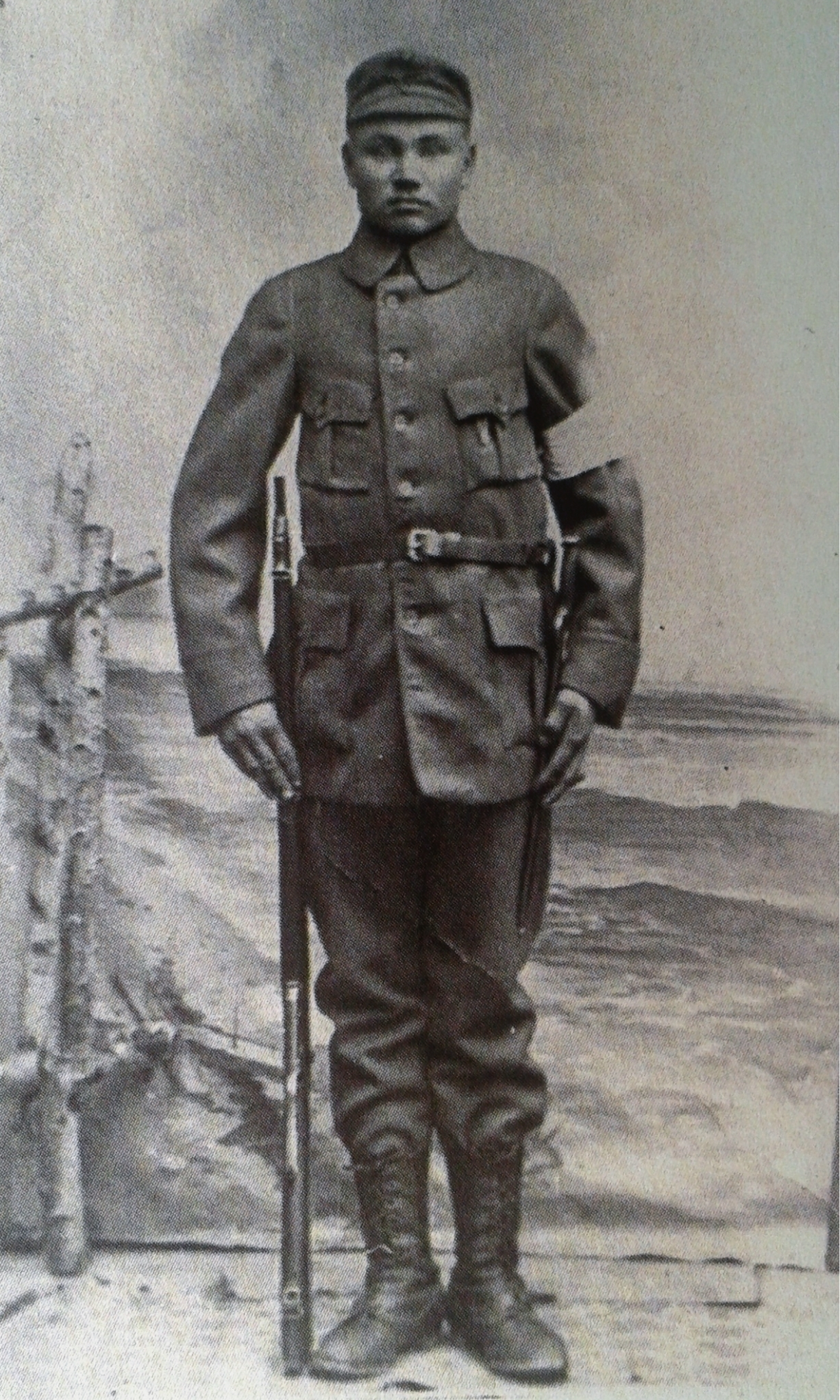 Arvo Peltomaa, soldier in the Finnish Civil War.